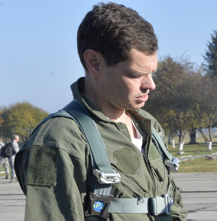 NBC Pentagon correspondent Hans Nichols gets a pre-flight safety brief by U.S. Air Force Tech. Sgt. Ruben Madrigal, 144th Operations Support Flight Aircrew Flight Equipment technician, at Starokostiantyniv Air Base, Ukraine, Oct. 10 as part of the Clear Sky 2018 exercise. Successful international operations are a testament to the cooperative efforts and enduring relationship between the U.S., its allies and partner nations. (U.S. Air National Guard photo by Tech. Sgt. Charles Vaughn)